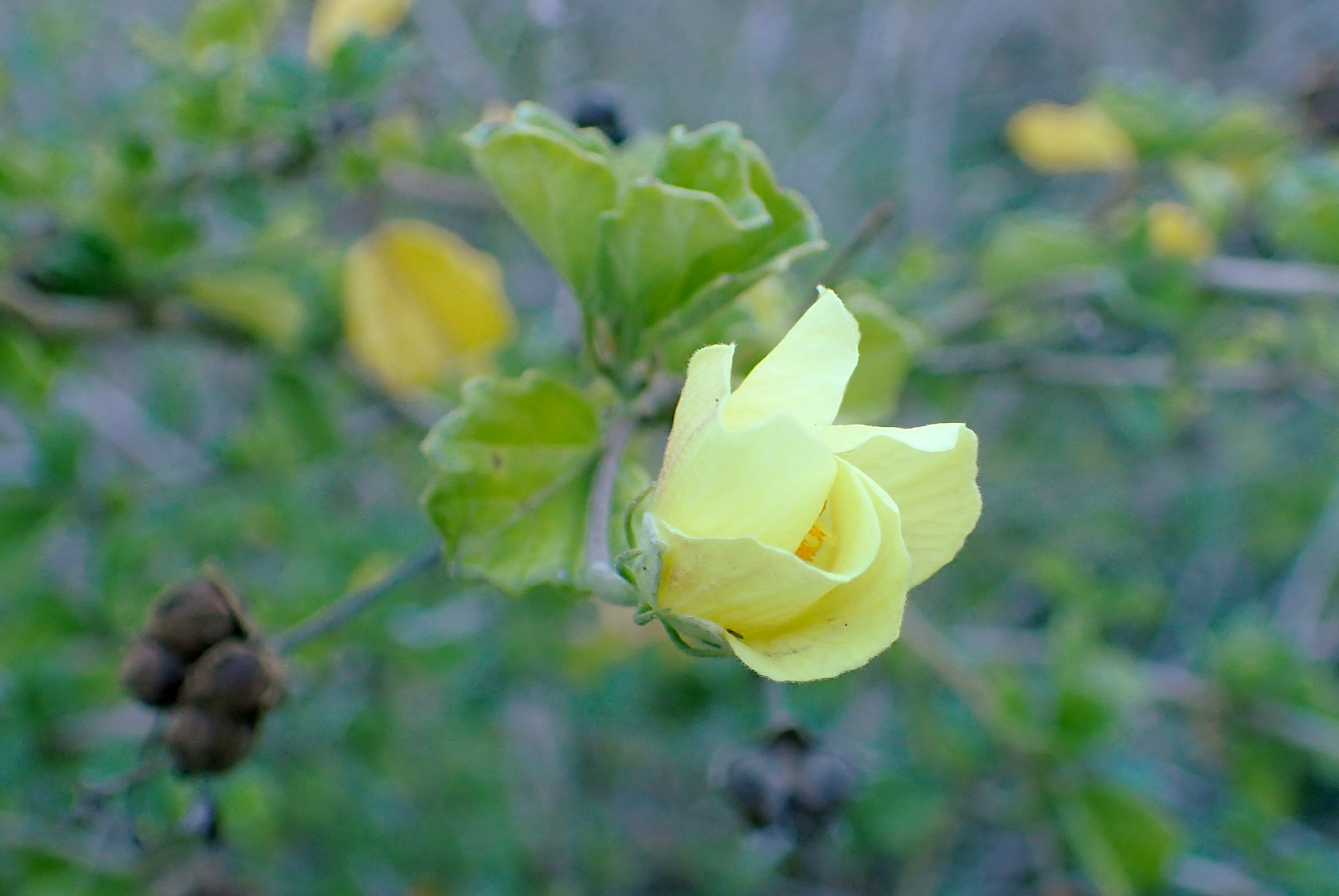 Pavonia praemorsa in the San Francisco Botanical Garden